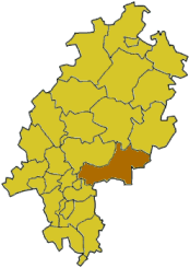 Karte Main-Kinzig-Kreis v. Int. Wikip.: Map of Hesse highlighting the district Main-Kinzig Hesse Based on the templates at Wikipedia:WikiProject German districts/Maptemplates